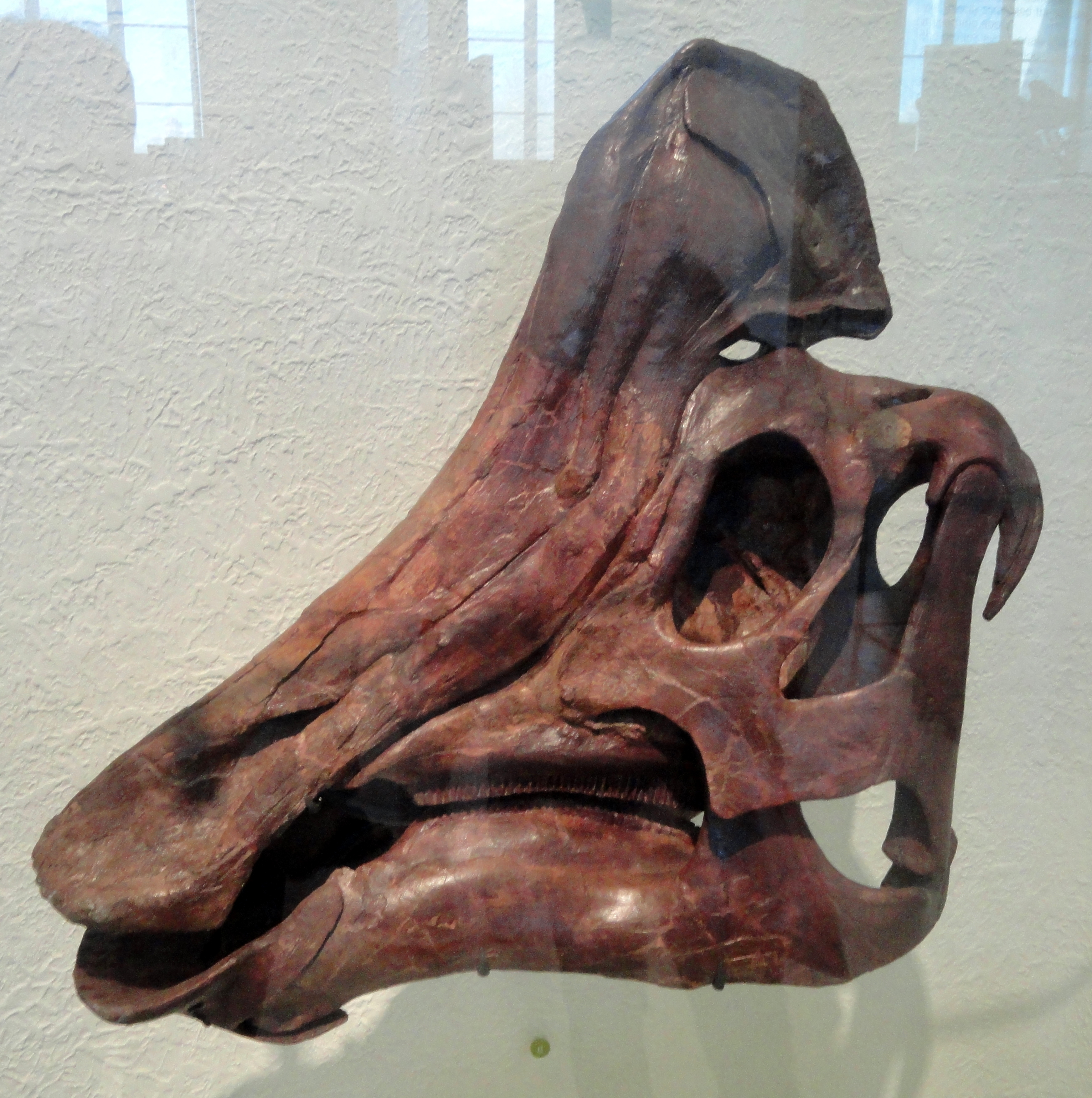 Exhibit in the fossil collection of the American Museum of Natural History, Manhattan, New York City, New York, USA.